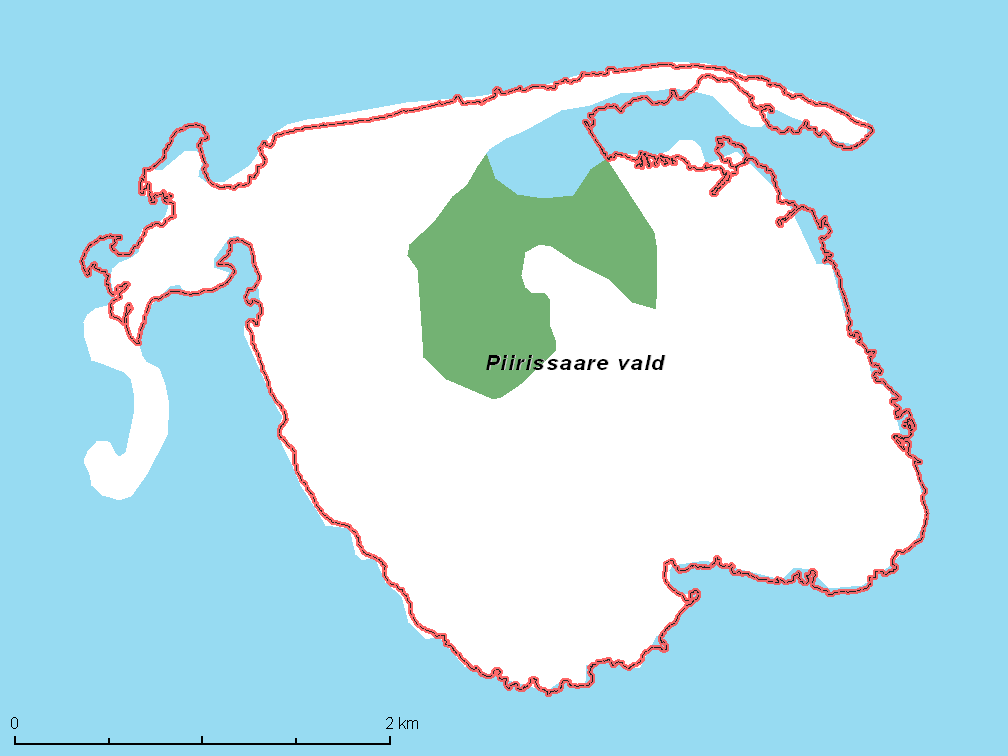 Map of municipality in Estonia